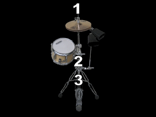 A hihat stand